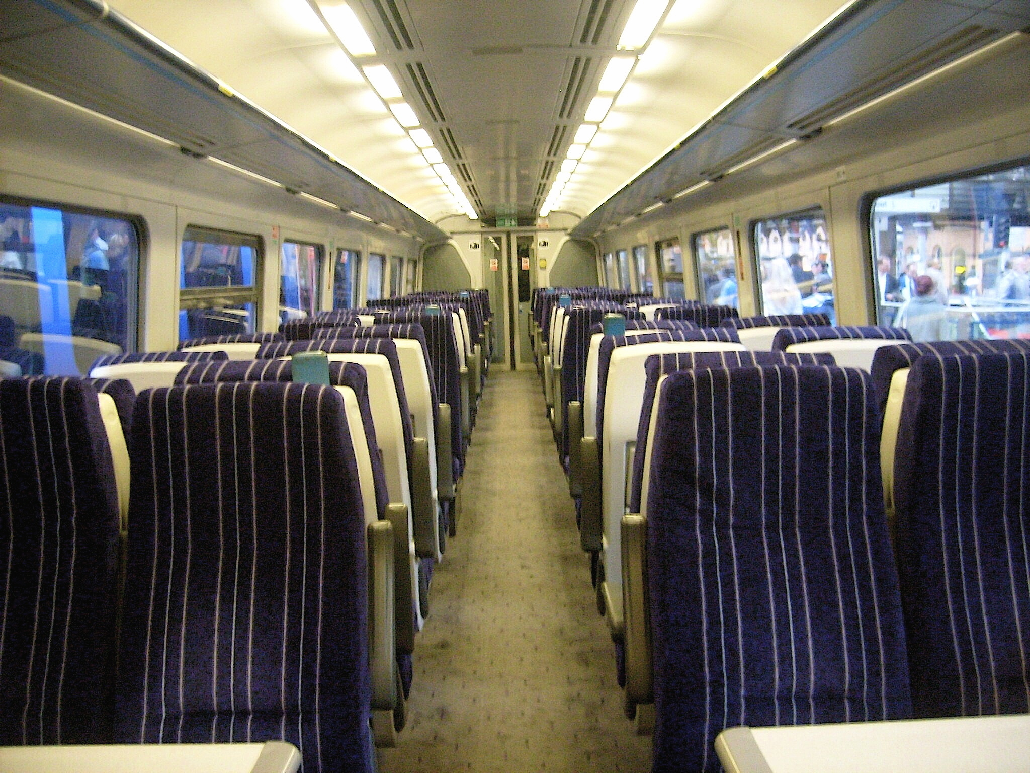 The interior of a refurbished Northern Rail Class 158